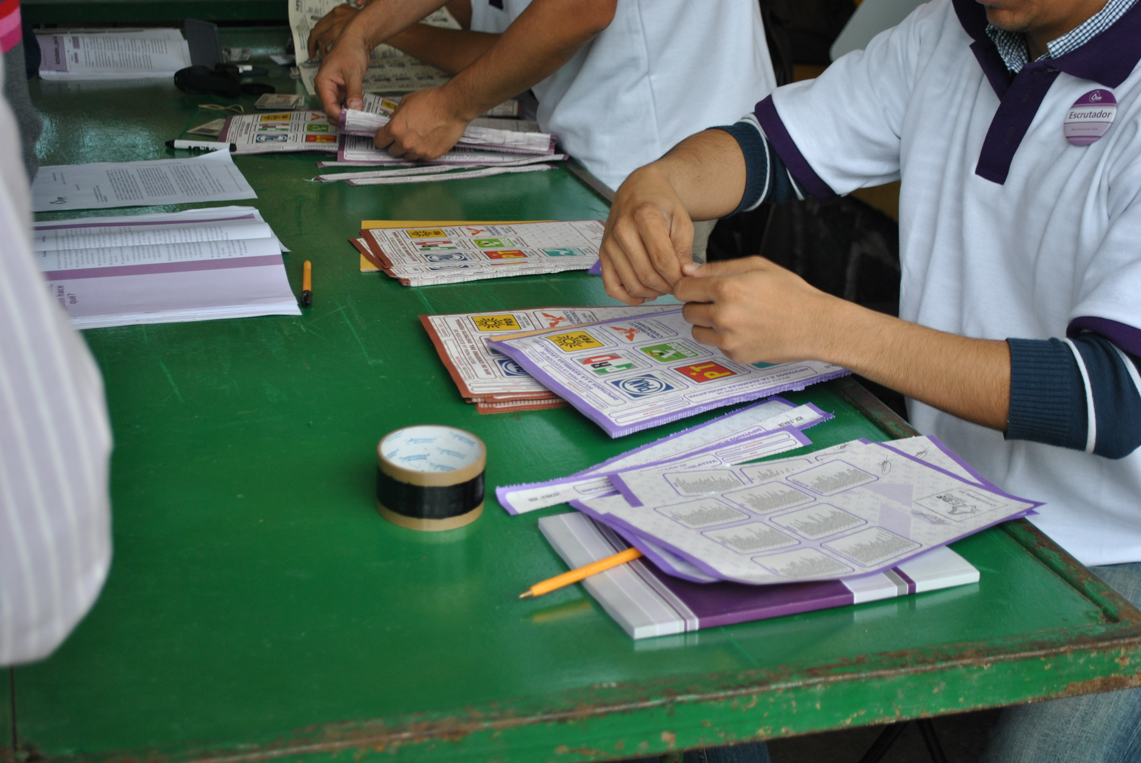 Poll worker for the federal elections in Mexico, 2012.